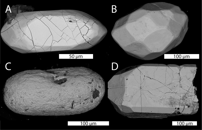 Original figure caption: A. Detrital zircon with tectonic fractures, North China craton, China (not shocked). B. Detrital zircon from the Wyoming craton, USA (not shocked). C and D. Detrital zircons from the famous Jack Hills locality, Yilgarn craton, Australia. Both well-rounded (C) and euhedral (D) zircobns are present in this population. Neither are shocked.